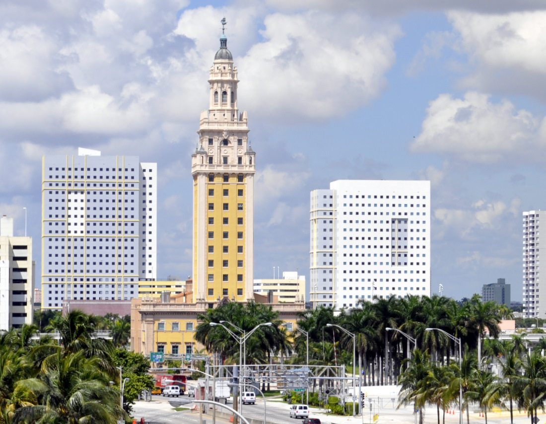 The Freedom Tower in downtown Miami as of September 2010.